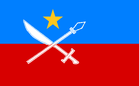 United Wa State Army flag